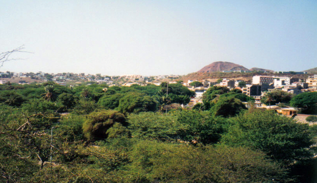 Praia, Santiago Island, Cape Verde